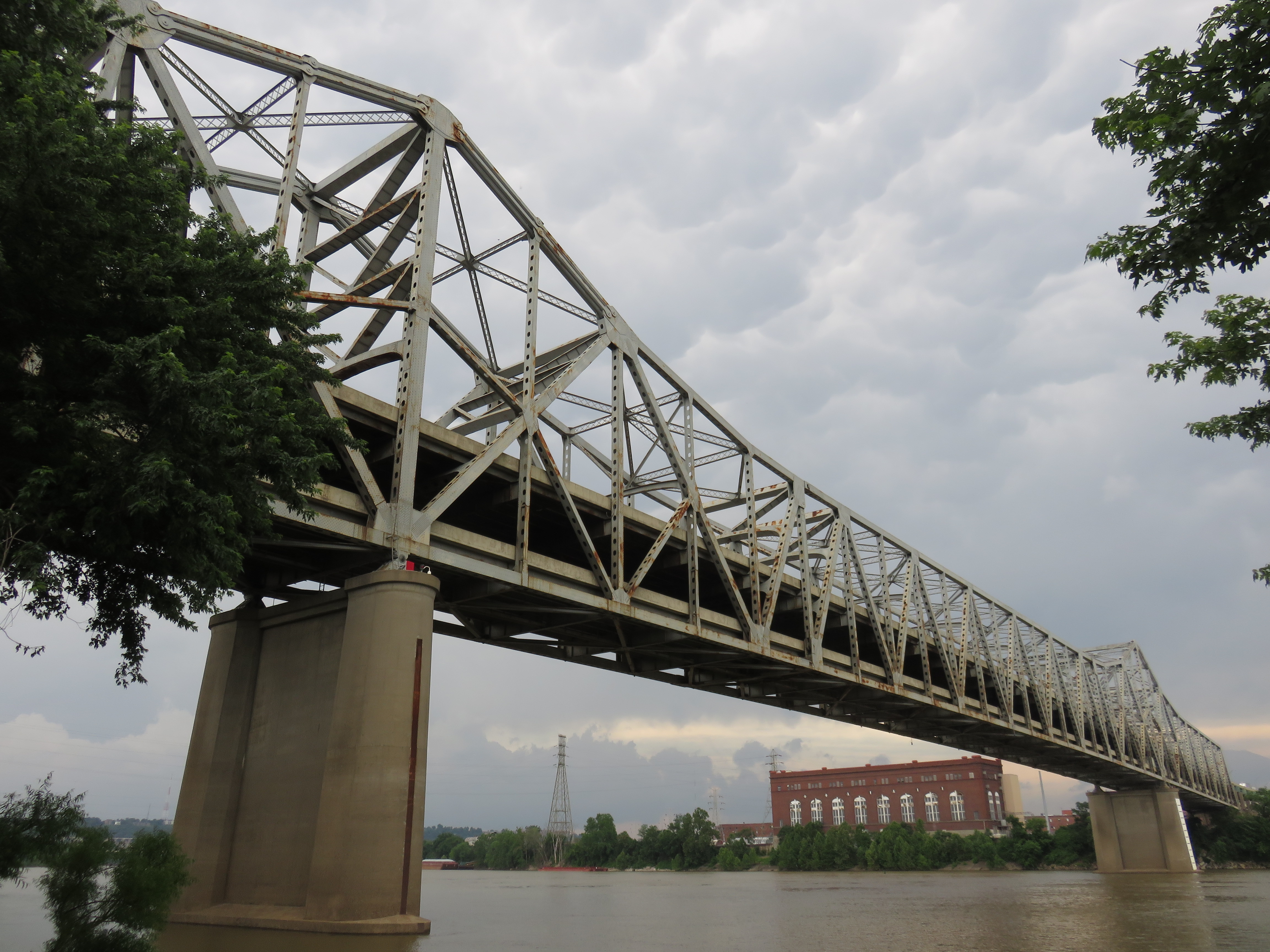 Brent Spence Bridge over the Ohio River in Cincinnati, Ohio and Covington, Kentucky in 2018